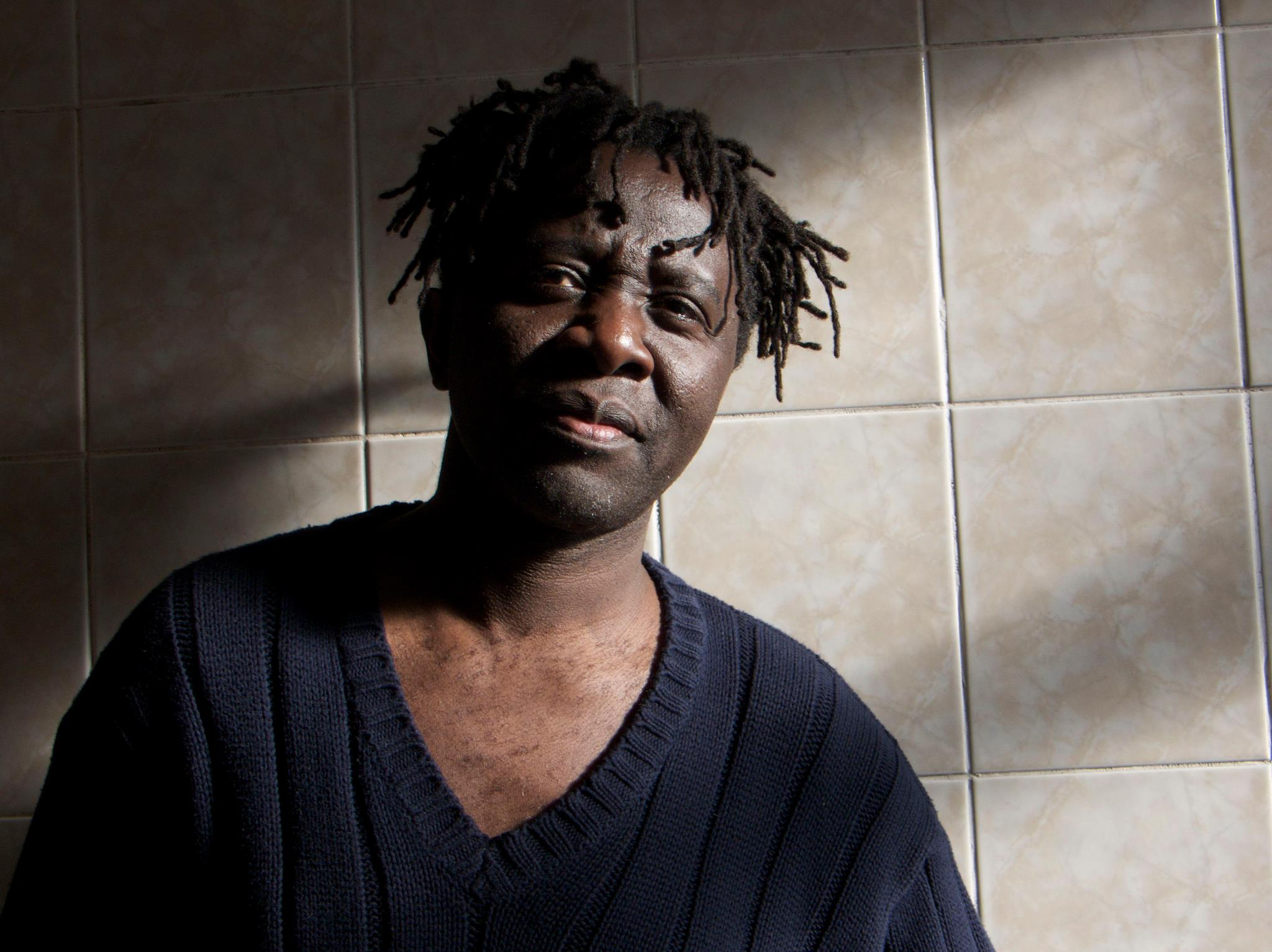 Bona Mangangu, painter and author